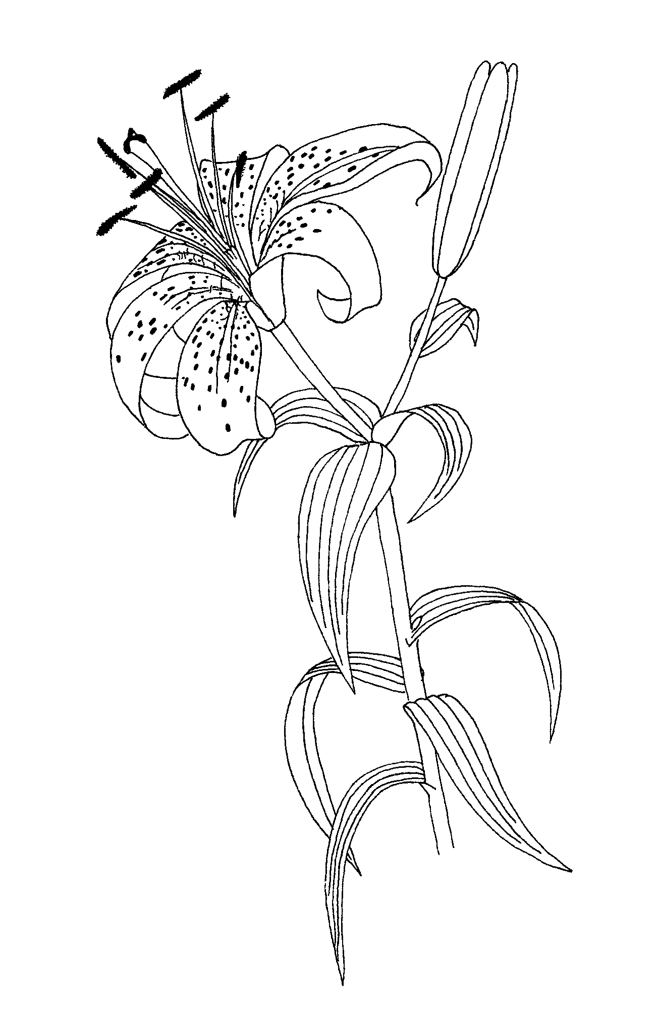 Lilium lancifolium nl: Tijgerlelie Bought at a shop Pendrawing on paper by Elly Waterman Pentekening op papier door Elly Waterman May 3, 1977